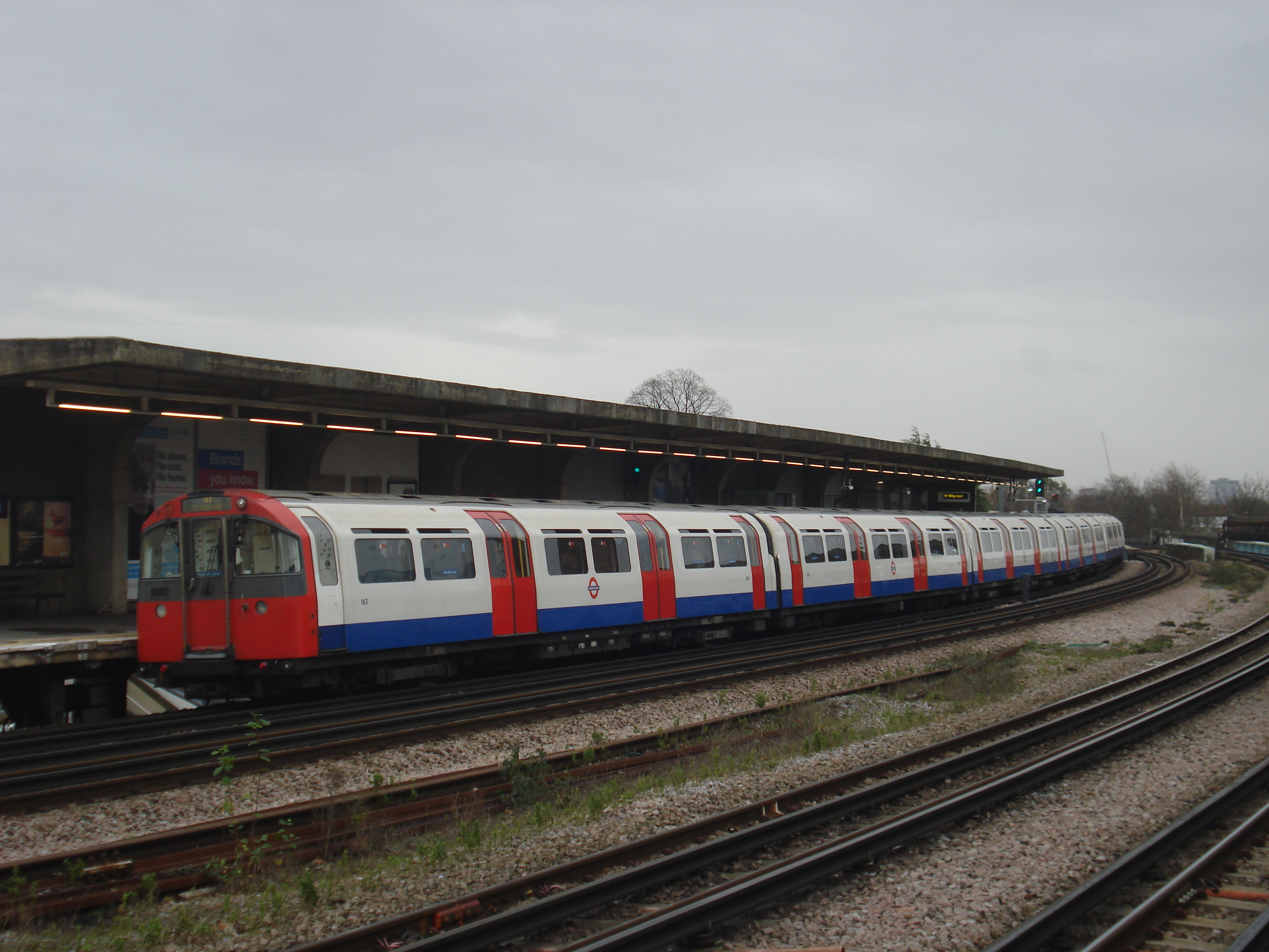 Piccadilly Line 1973 Stock at Chiswick Park